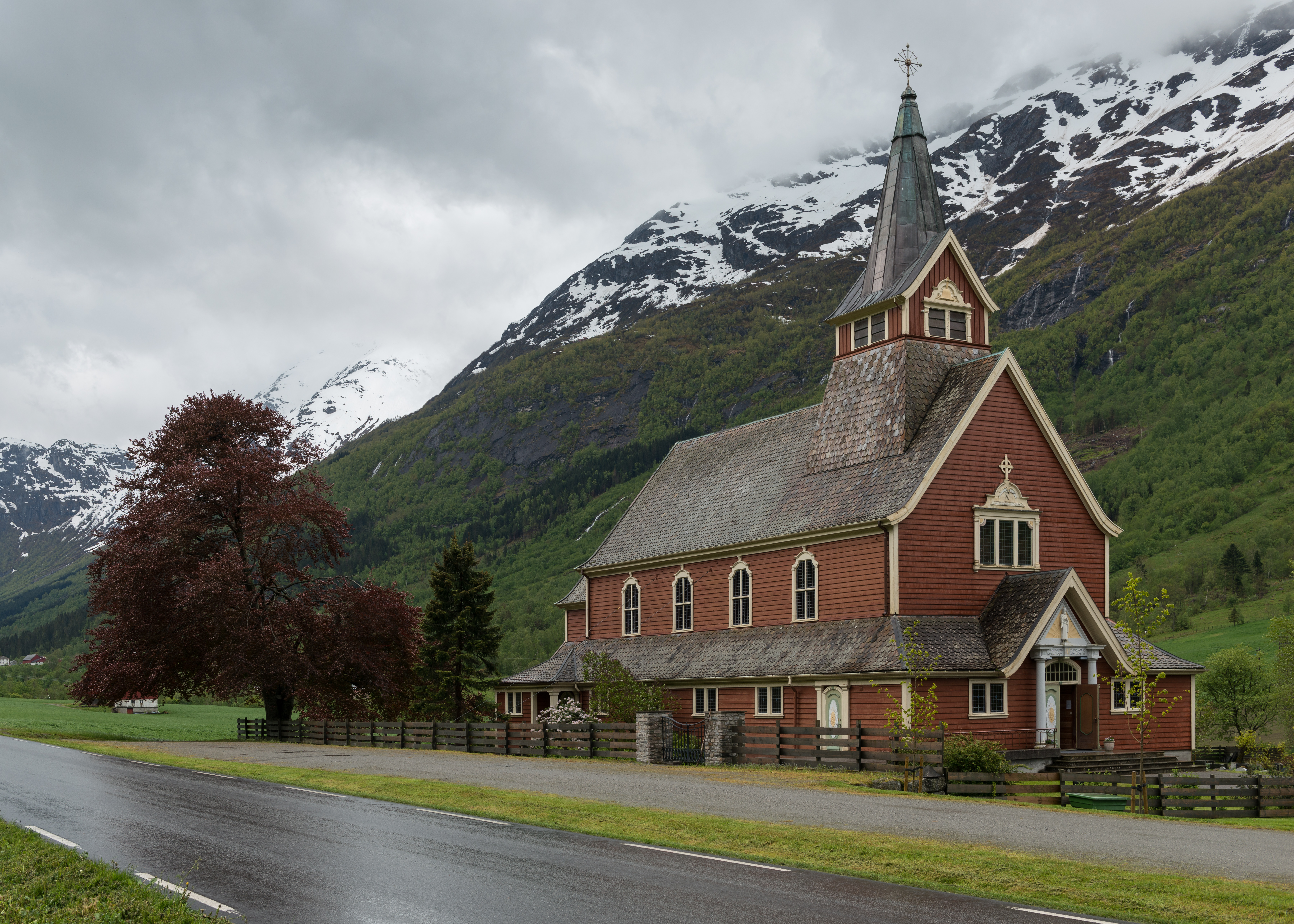 A northeast view of the Olden Church, Stryn, Sogn og Fjordane